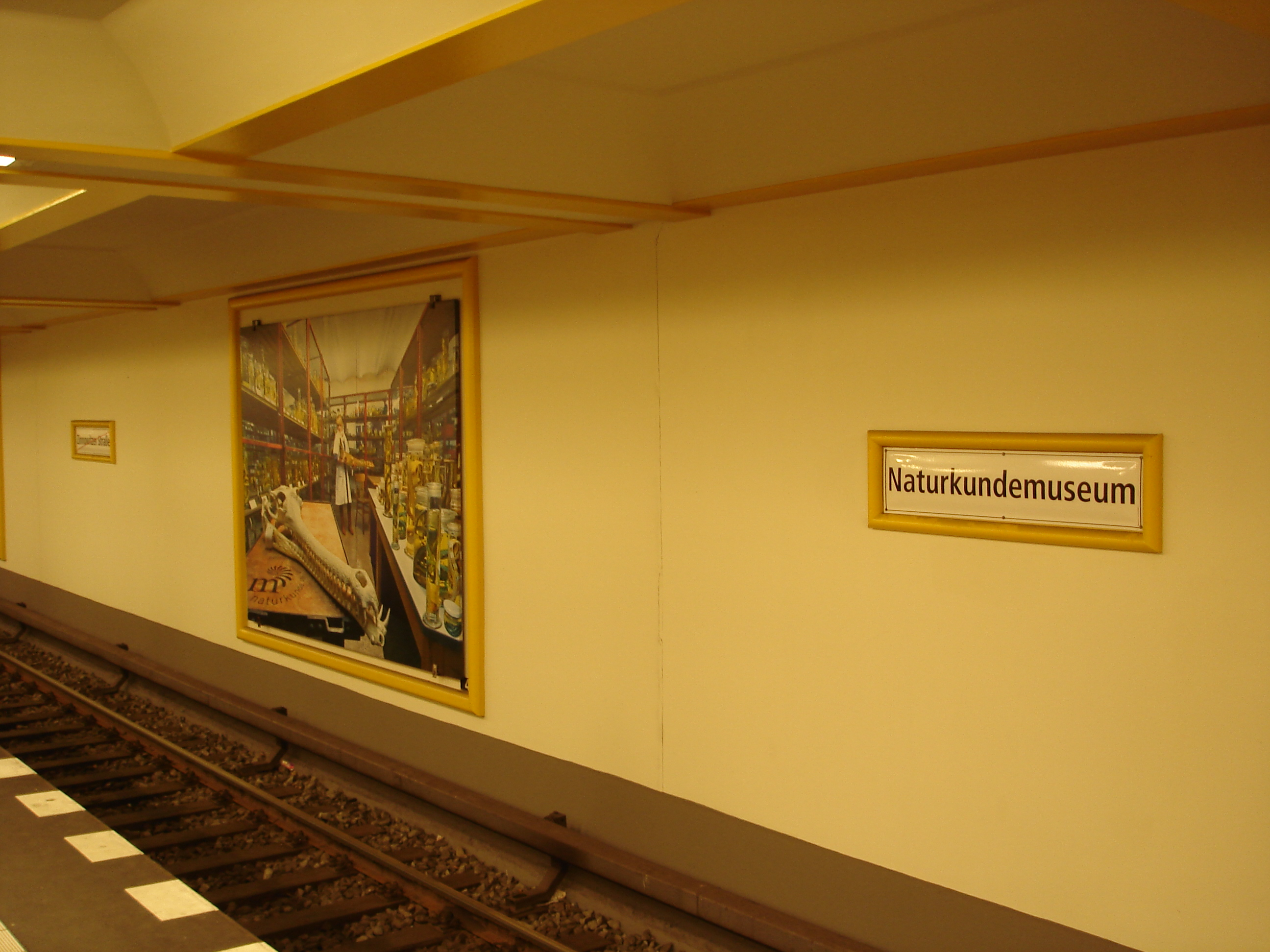 U Naturkundemuseum four days after being renamed from U Zinnowitzer Straße. View to the south.